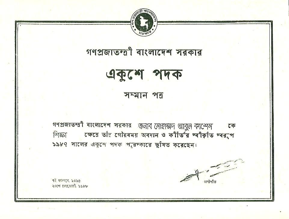 Ekushe padak. (This certificate is written in Bengali language. English translation : 'Government of the People's Republic of Bangladesh' ' Ekushey Padak' 'Letter of Honor' 'The Government of the People's Republic of Bangladesh has awarded the Ekushey Padak of 1987 to Mr. Mohammad Abul Kashem for his glorious contribution and achievement in the field of education.' '7 Falgun 1394 ,' '20 February, 1988' 'President')